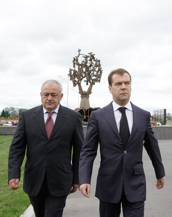 VLADIKAVKAZ, NORTH OSSETIA. The President laid flowers at the Tree of Sorrow monument in memory of the victims of the Beslan tragedy. With head of Republic of North Ossetia-Alania Taimuraz Mamsurov.